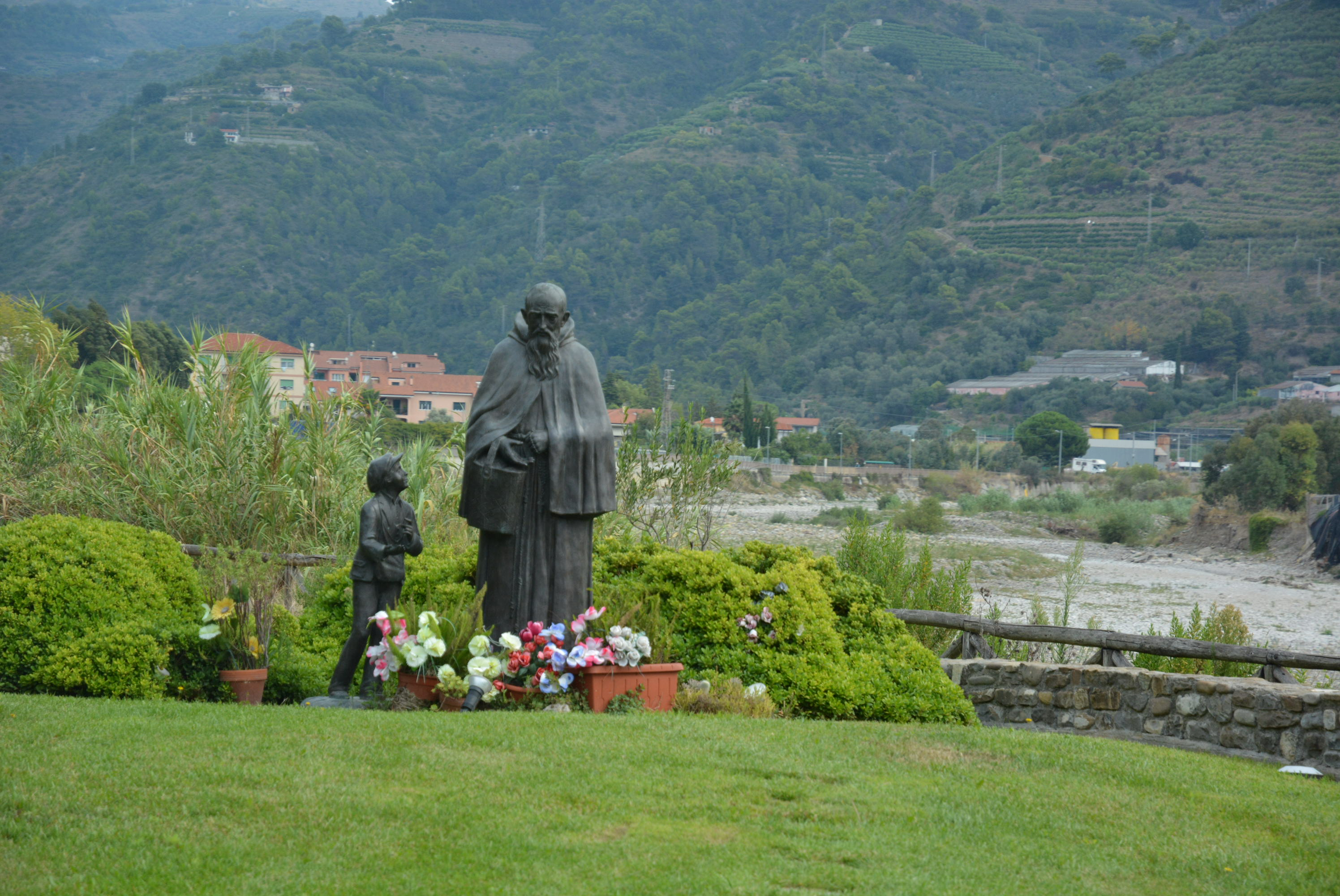 A Statue of the Monk Francesco Maria da Camporosso with a boy, near Dolceaqua on the Sp64